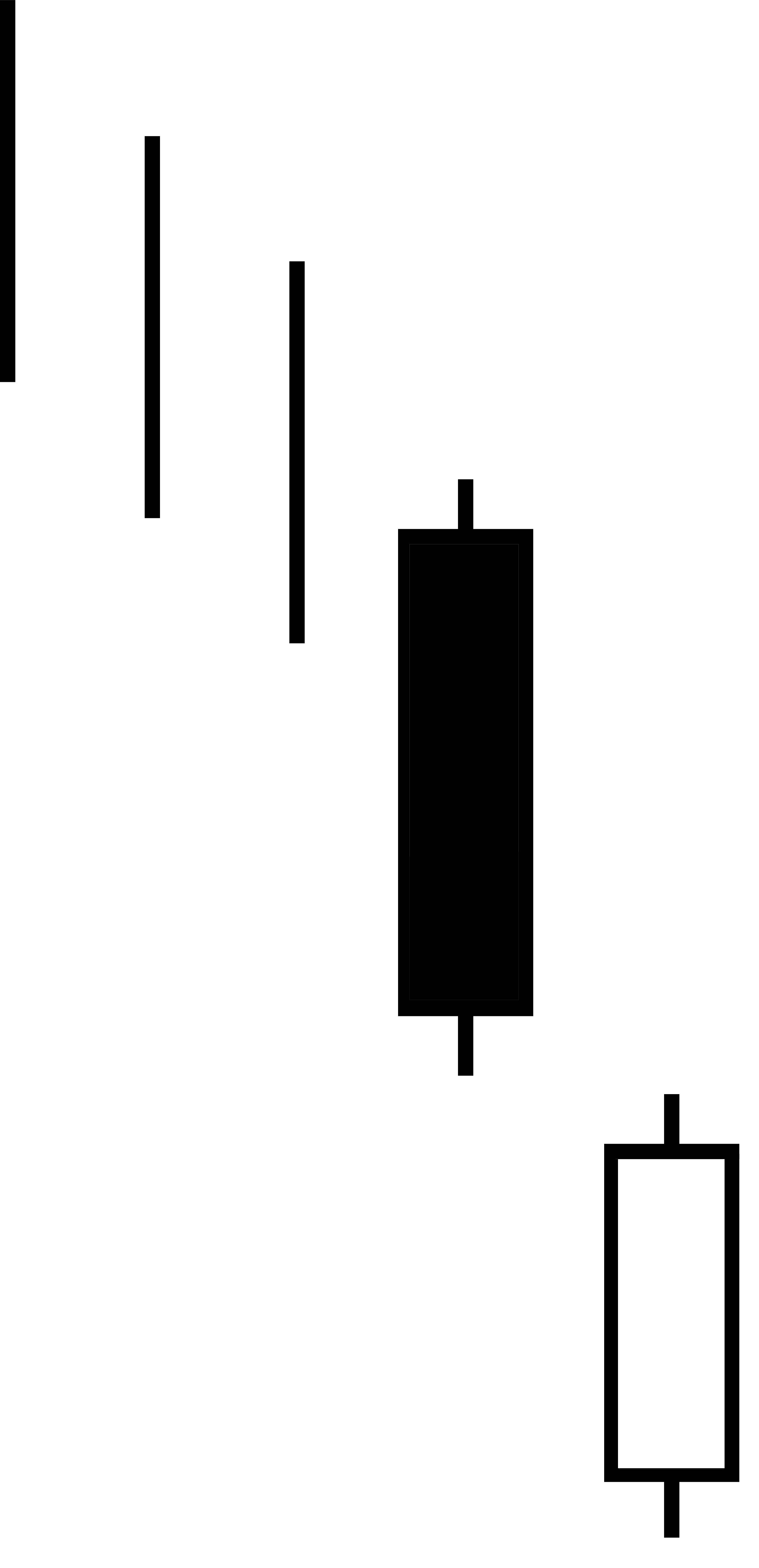 bearish on neck